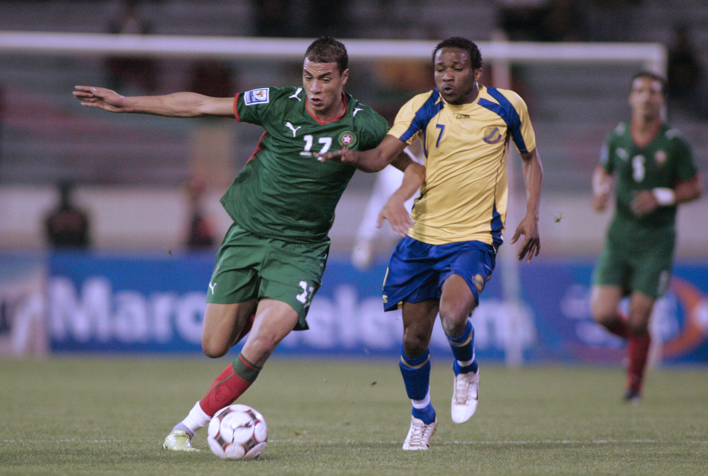 Marouane Chamakh of Morocco (left) and Stephane Nguema of Gabon (right) during an international match of their national teams. Gabon won the match against Morocco with 2-1.